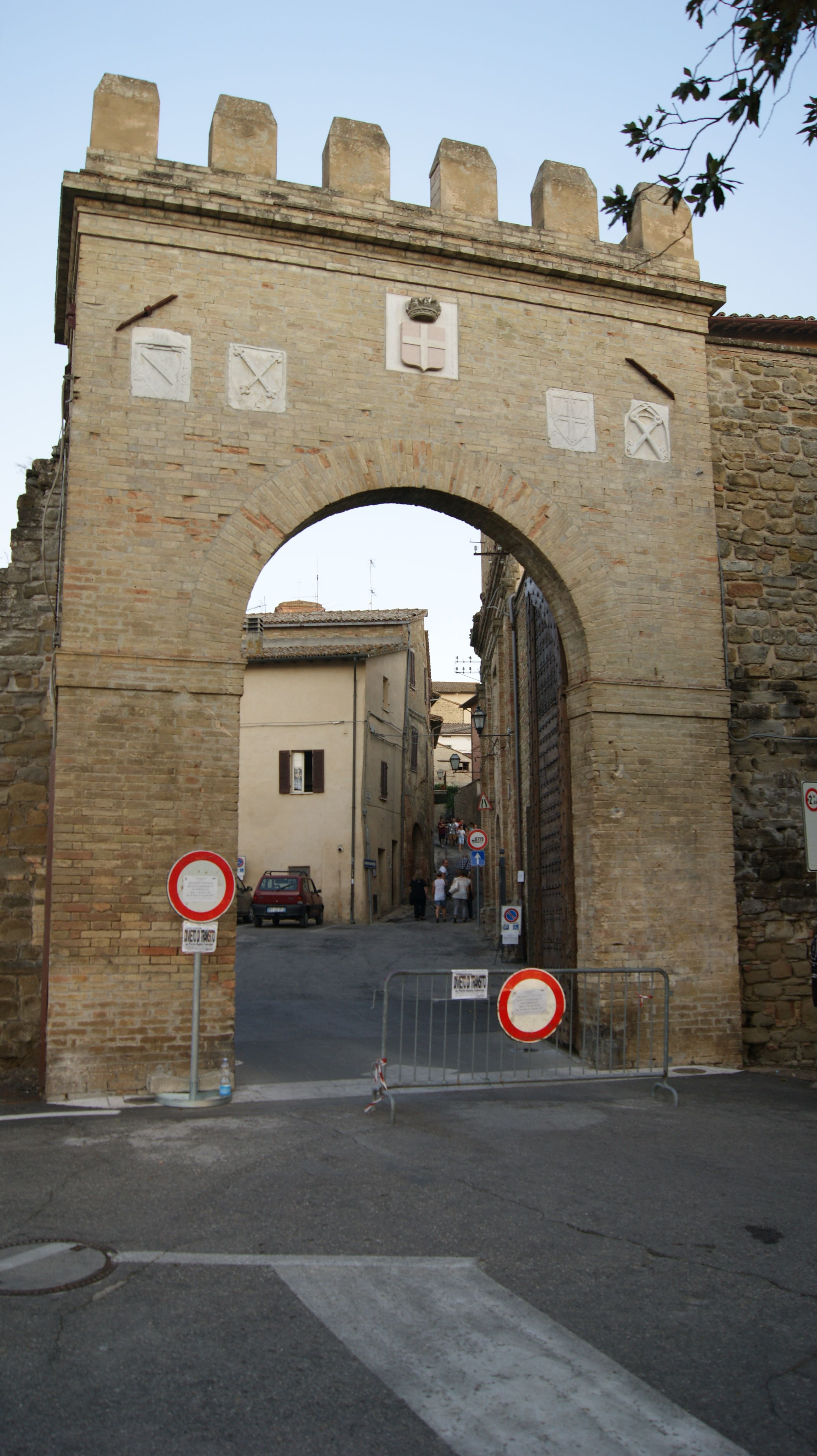 Bettona, Italy. Porta Vittorio Emanuele.